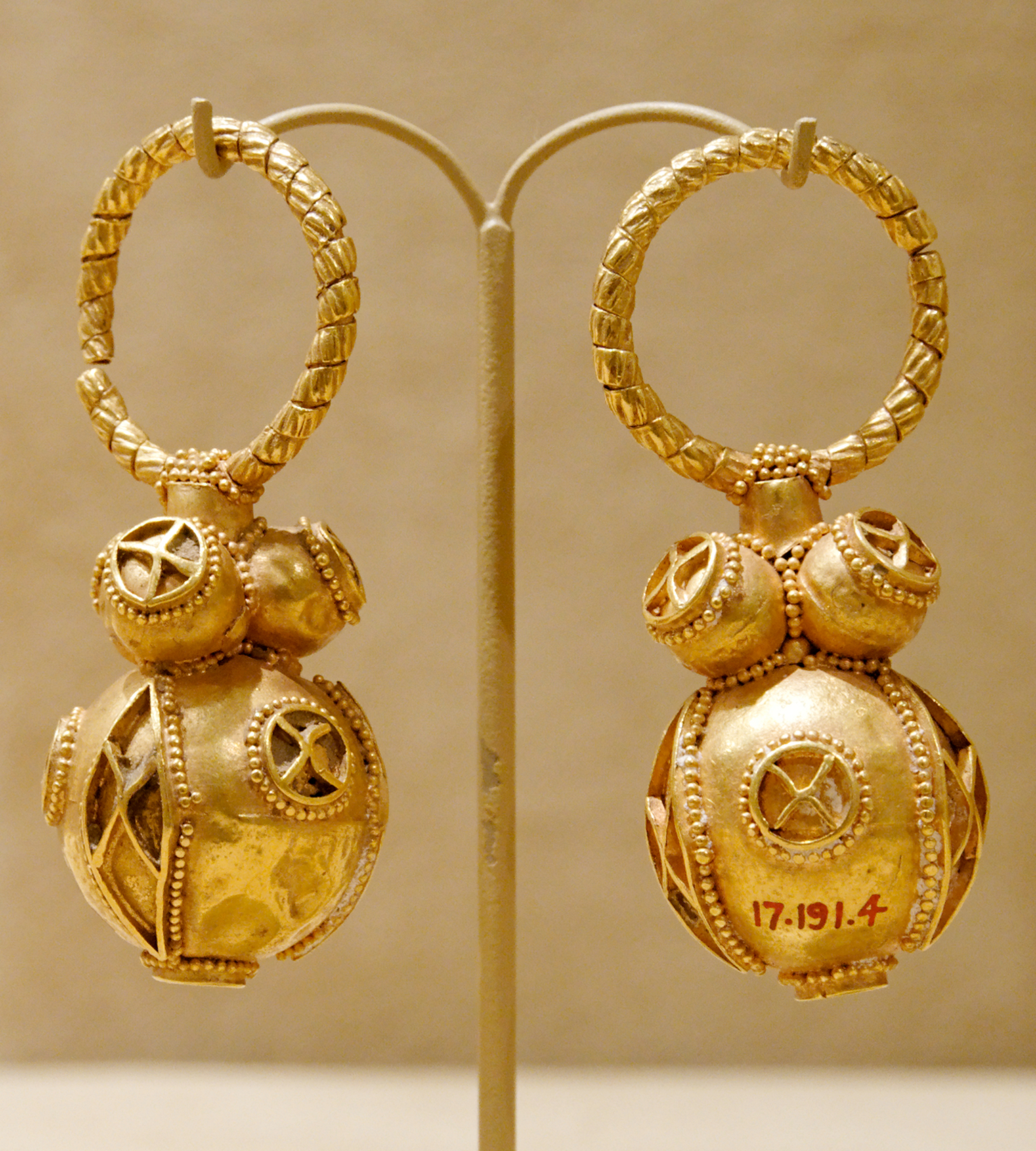 Pair of gold earrings. Avar work.